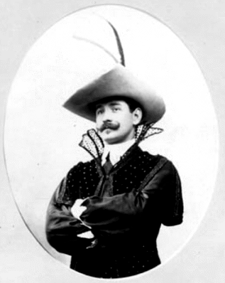 Valli was born in Poland on 29 August 1864 and married on 16 February 1888 in Riga. He was trained by E Wulff and made his Paris debut at a hippodrome in 1887.